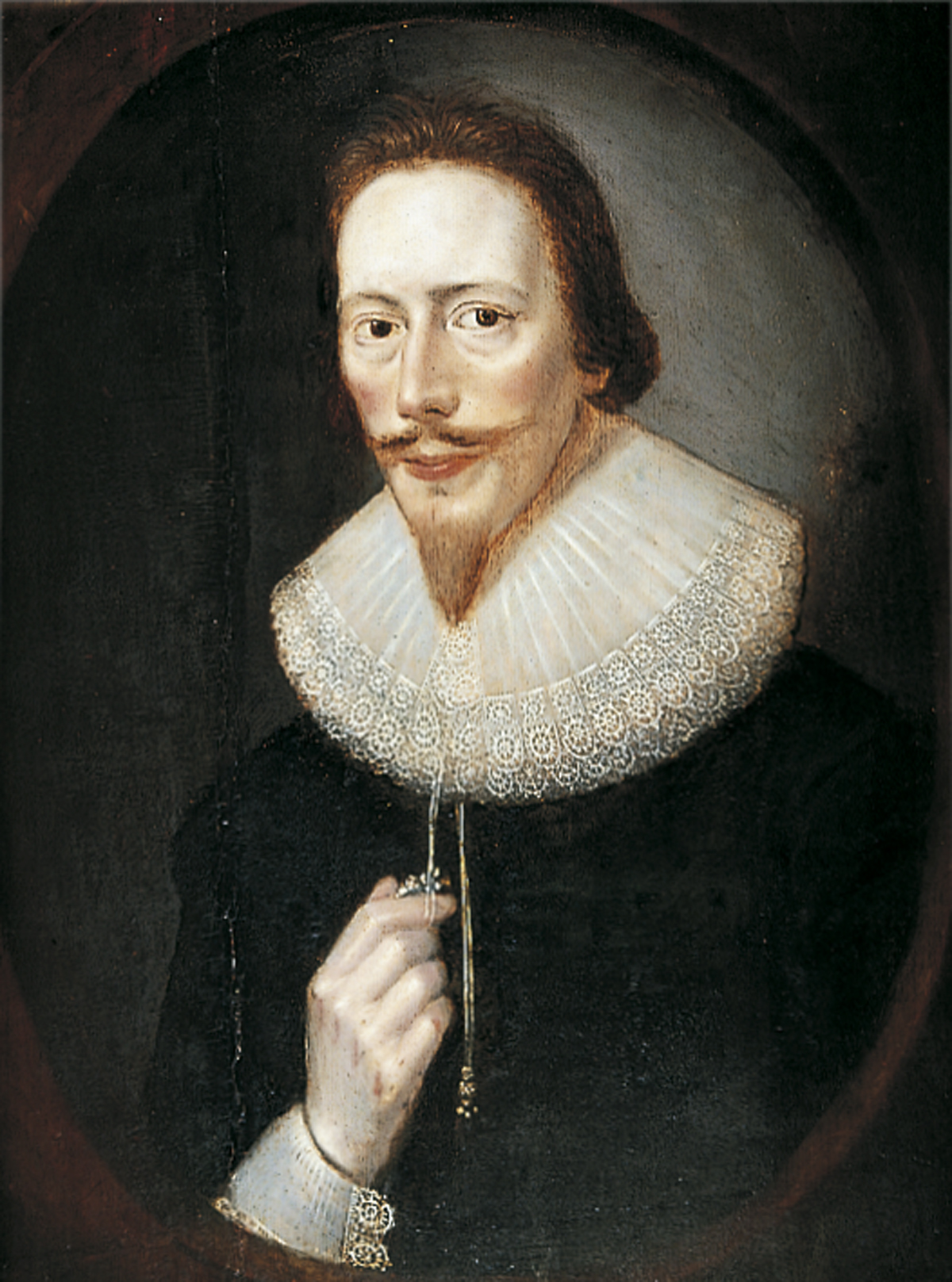 Portrait of Richard Young